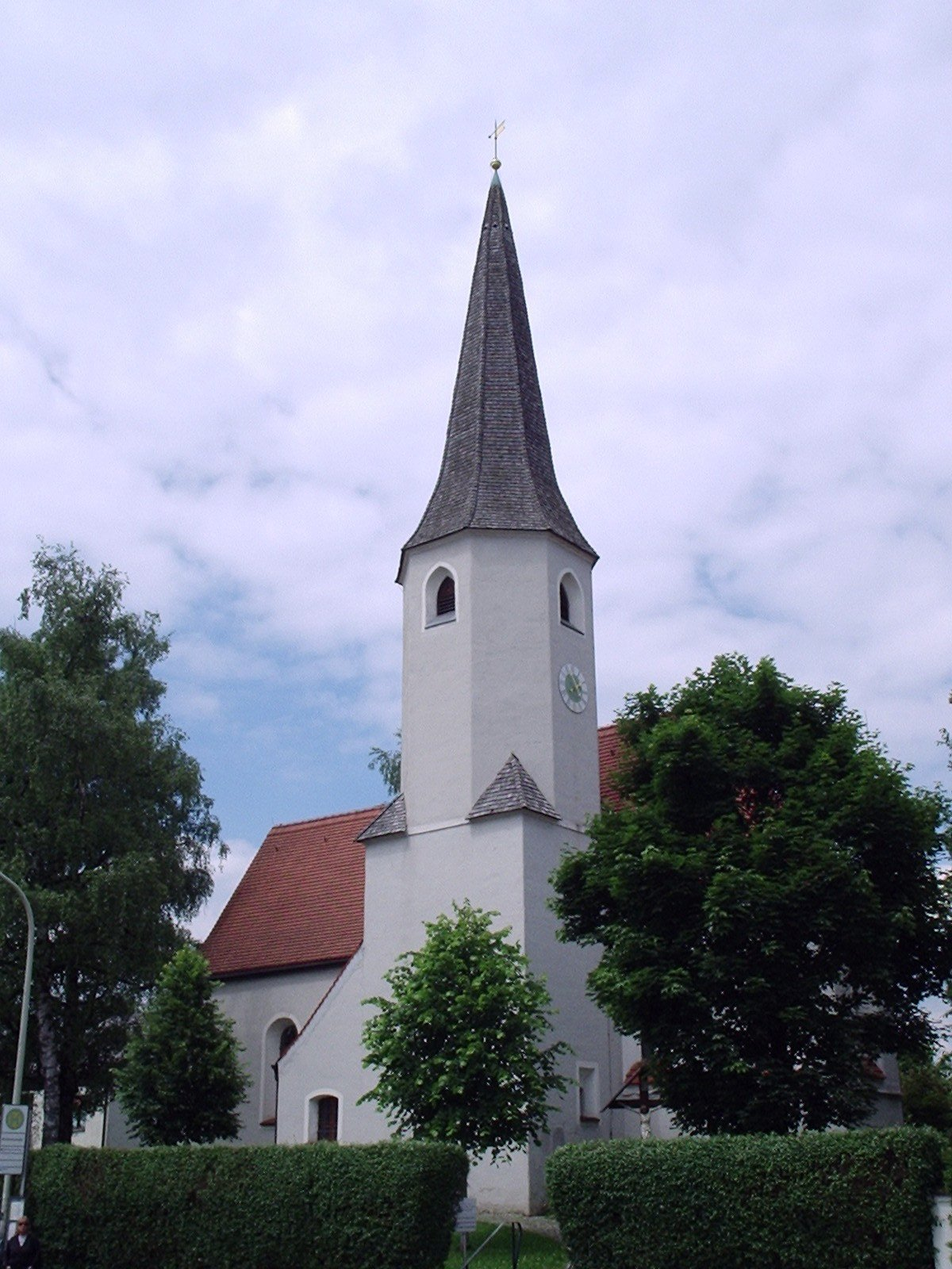 Alte St. Johann Baptist ('Old St. John the Baptist') in Solln, Herterichstraße, Munich, Germany.